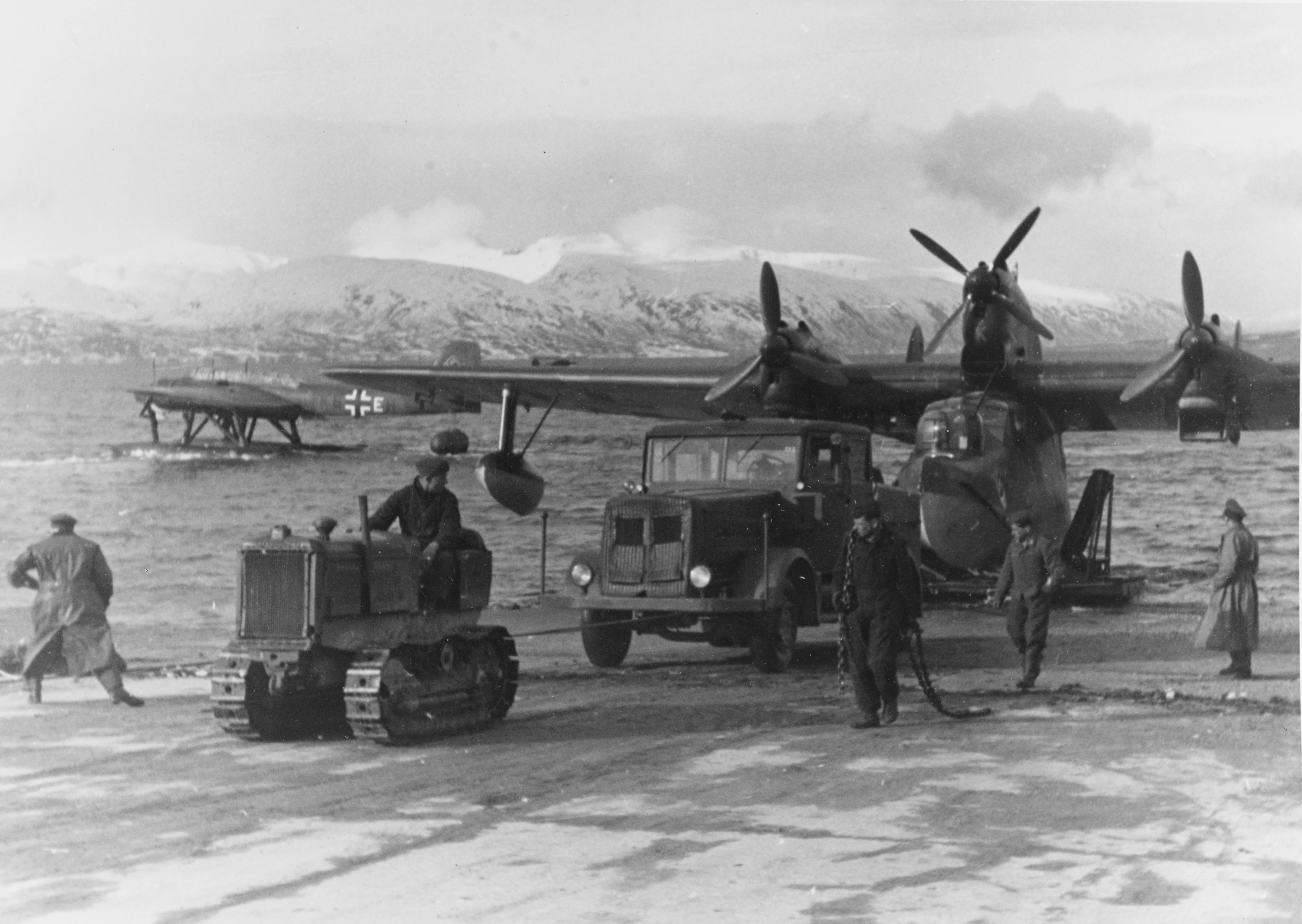 Crews pull a German Blohm&Voss BV 138C seaplane from the water at at Kirkenes, Norway, during World War II. In the left background is a Heinkel He 115 float plane from Küstenfliegergruppe 406 coded K6+EH.